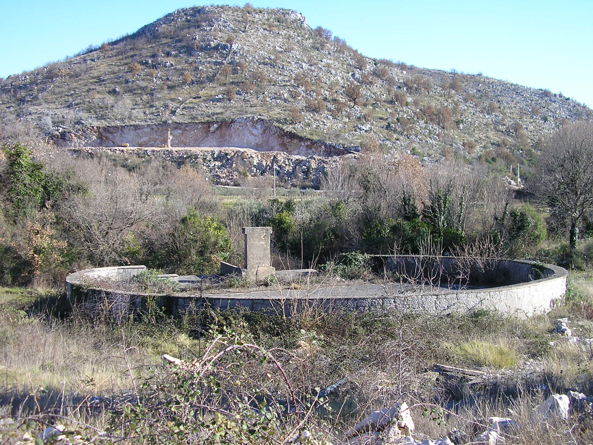 Water tank in Prapratnica